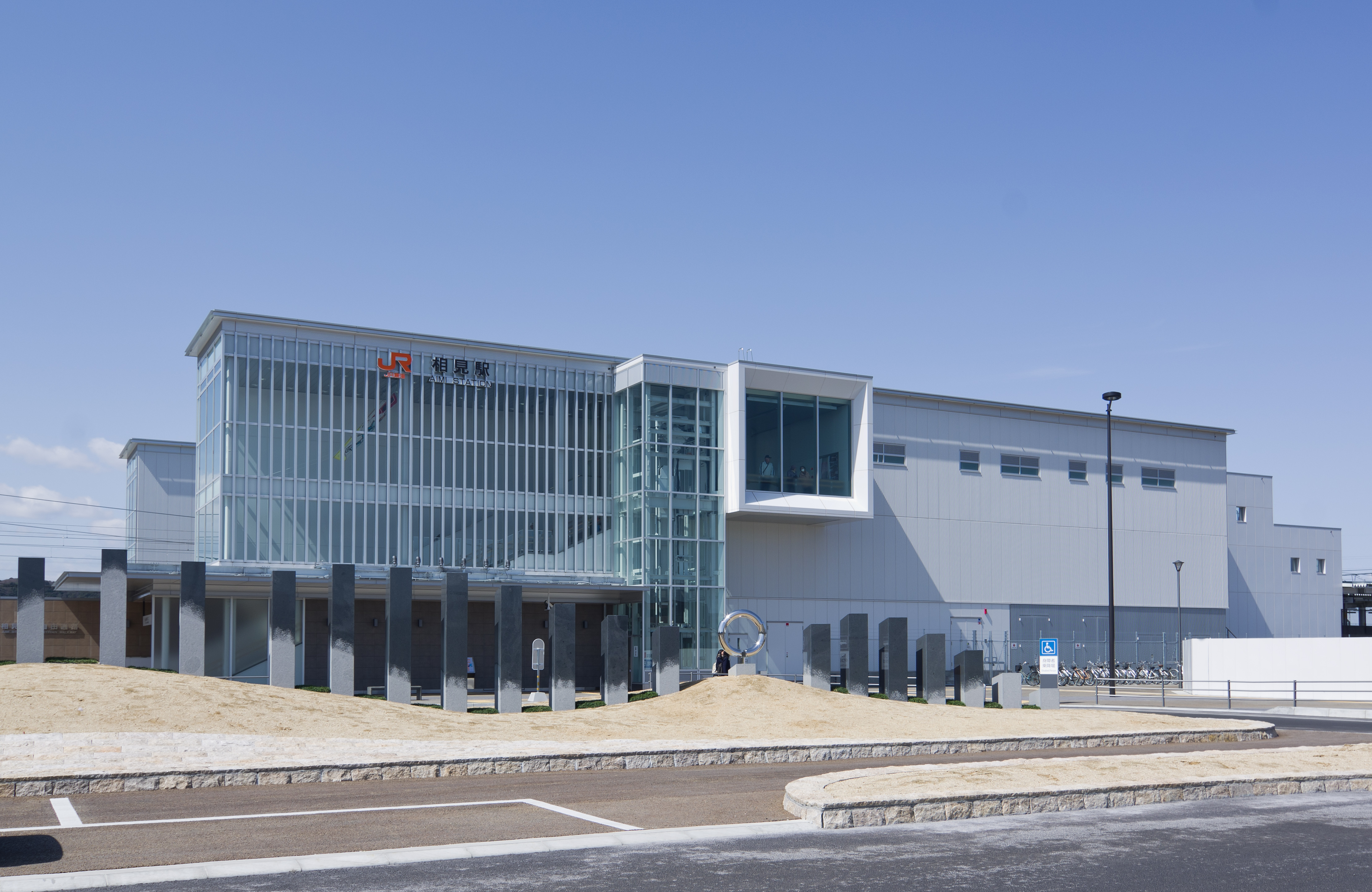 Aimi Station (East side) in Kota Town, Aichi, Japan.